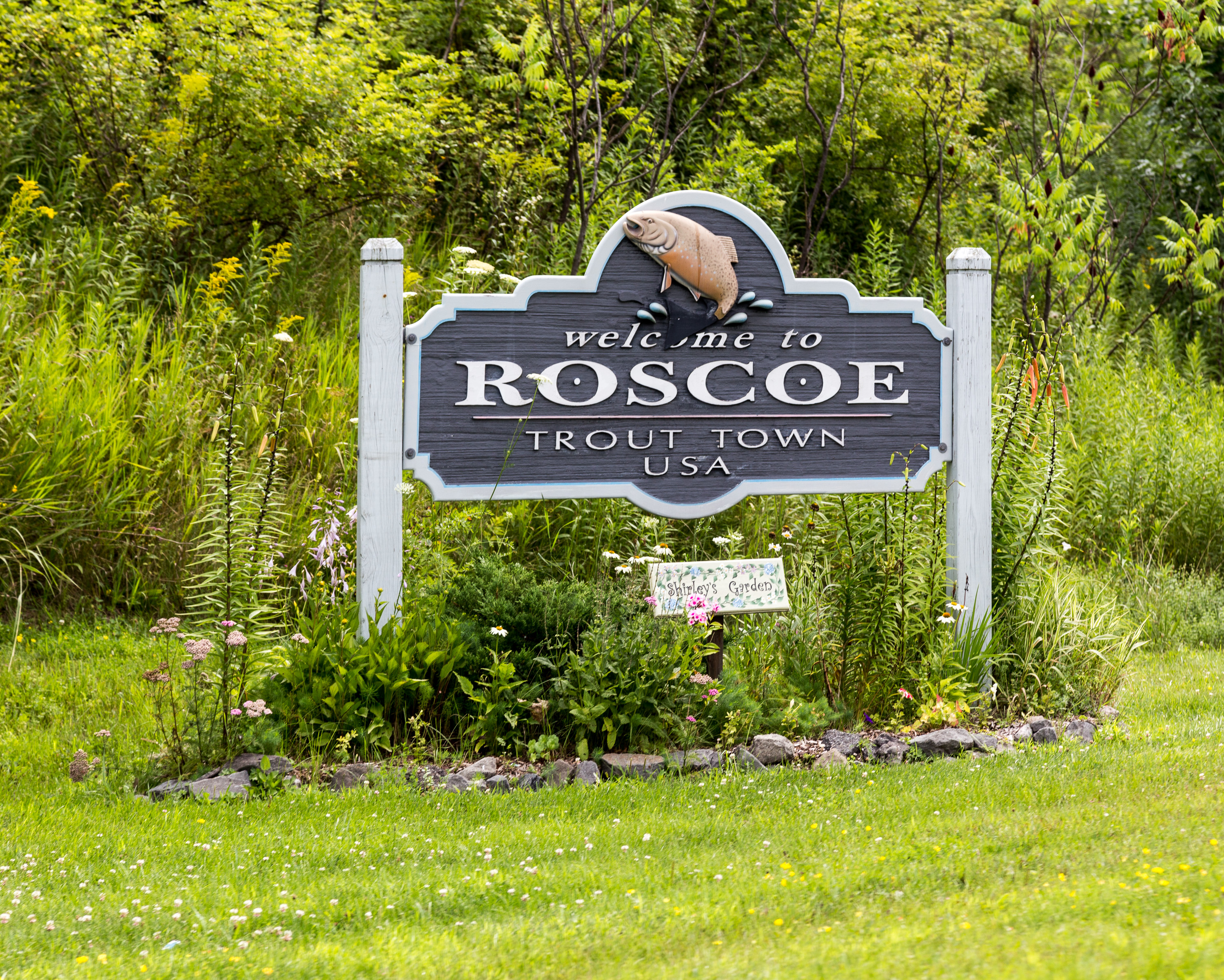 Welcome to Roscoe, New York, Trout Town USA